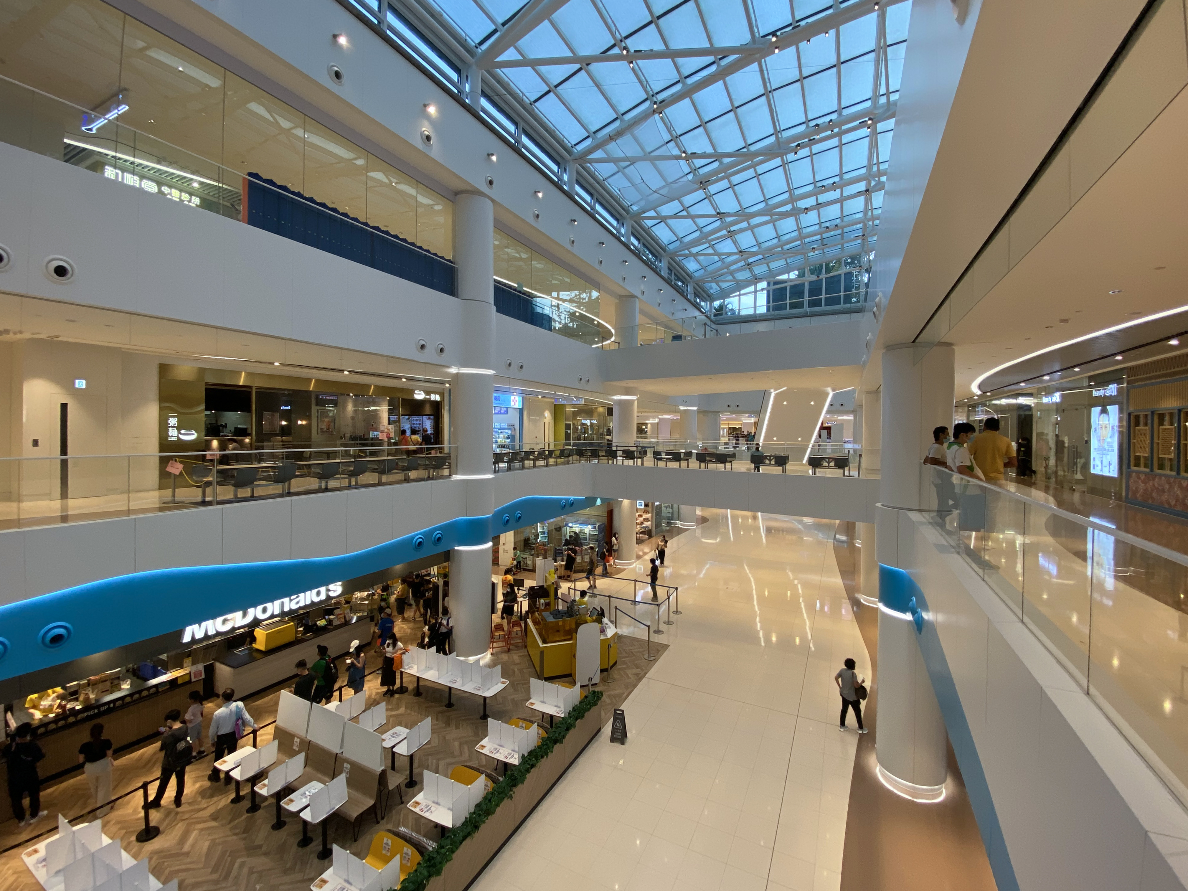 +WOO After renovation in 2019